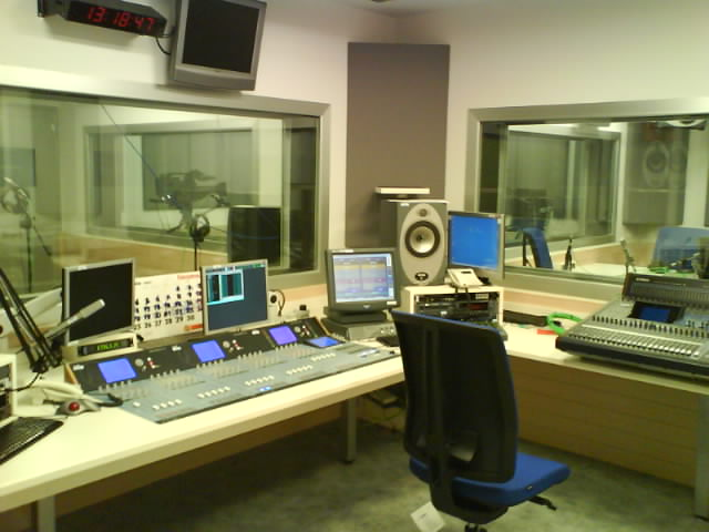 Radio Euskadi en Bilbao, Vizcaya, País Vasco, España.